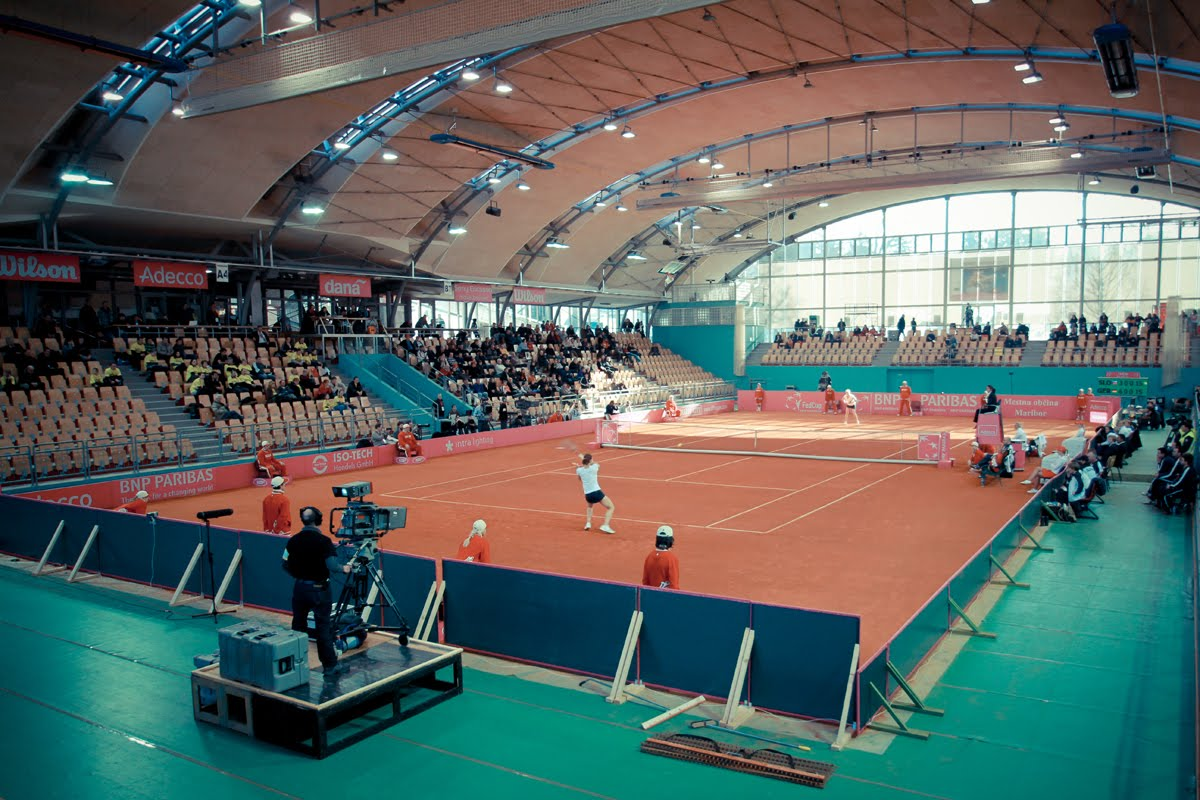 Fed Cup Slovenia vs Germany in Maribor